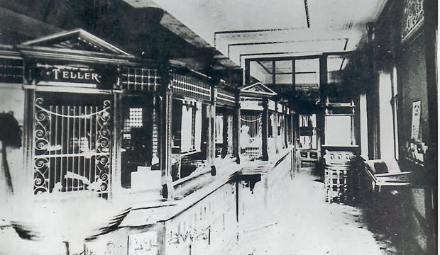 Main lobby of former Wheeler Bank in Wheeler Opera House, Aspen, CO, USA